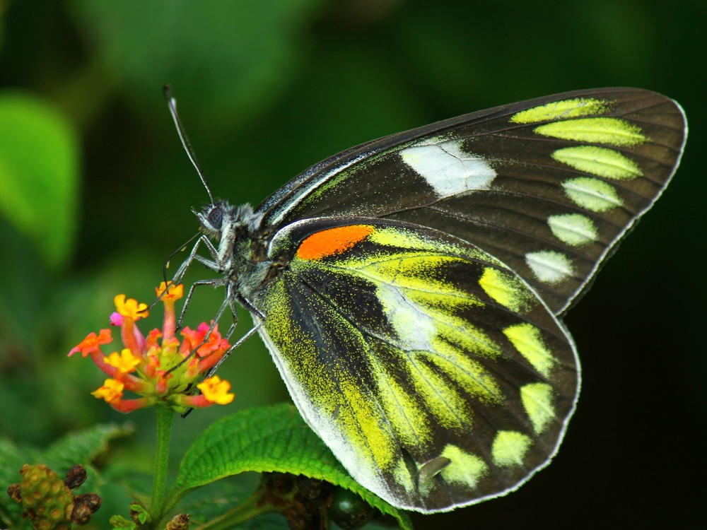 female